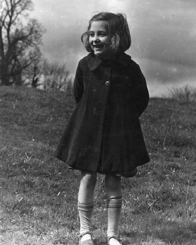 Colony For Artists Under Six- Evacuees To Dartington Hall, Totnes, Devon, England, 1941 A full-length portrait of five-year-old evacuee June Mancini from Blackfriars in London, standing in a sunny field during a walk from her billet at Dartington Hall, near Totnes in Devon.